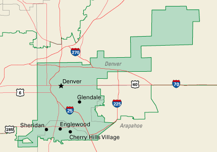 From